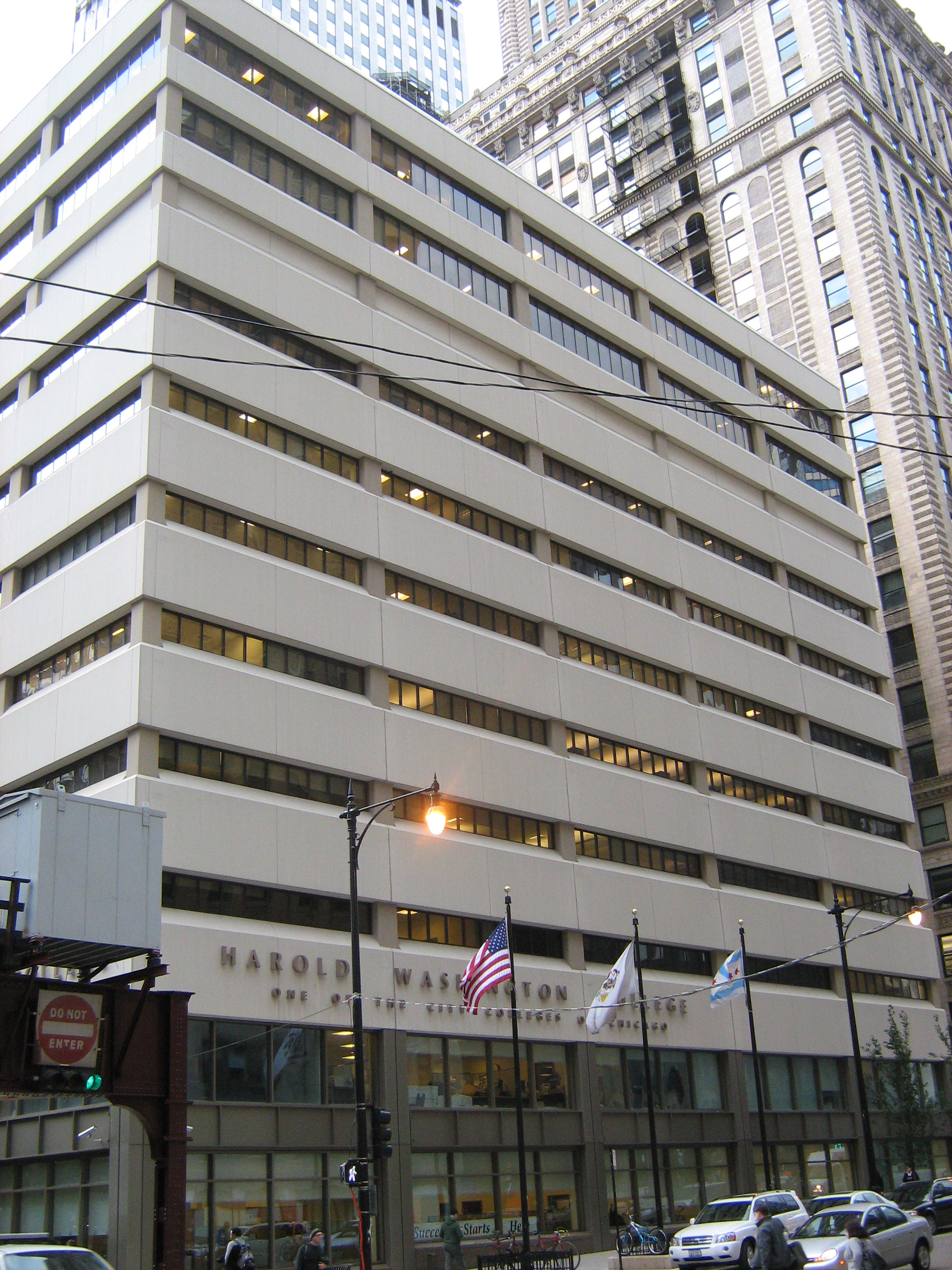 This photo was taken from the New East side of the Harold Washington building